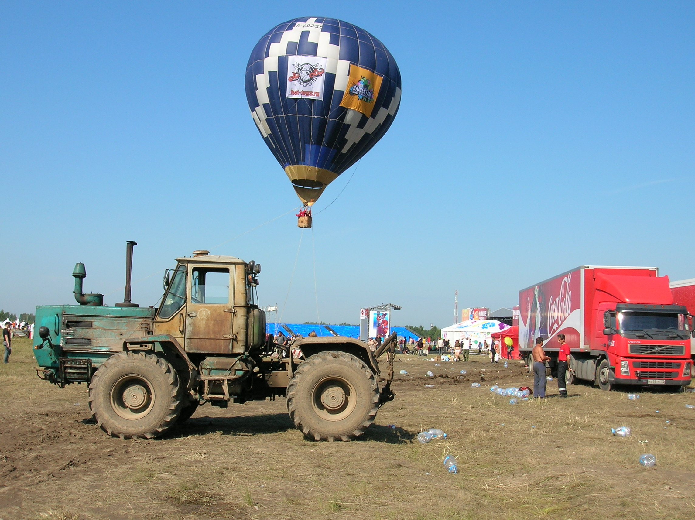 Nashestvie-fest 2009